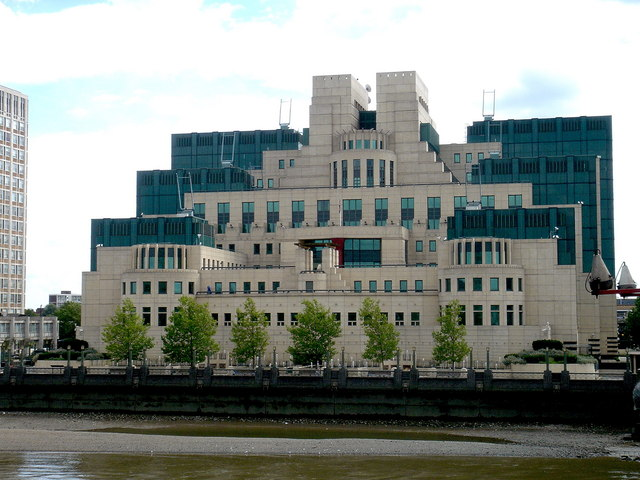 MI6 Building Marked on Multimap as 'Secret Intelligence Service' ... not so secret then?